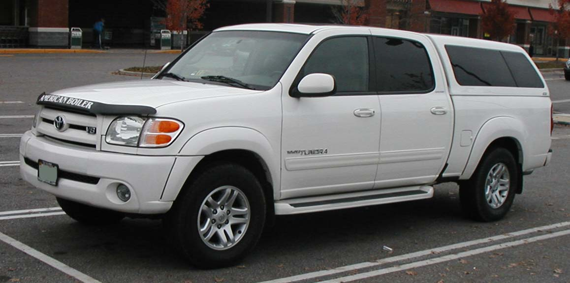 2004-2006 Toyota Tundra Double Cab photographed in USA.